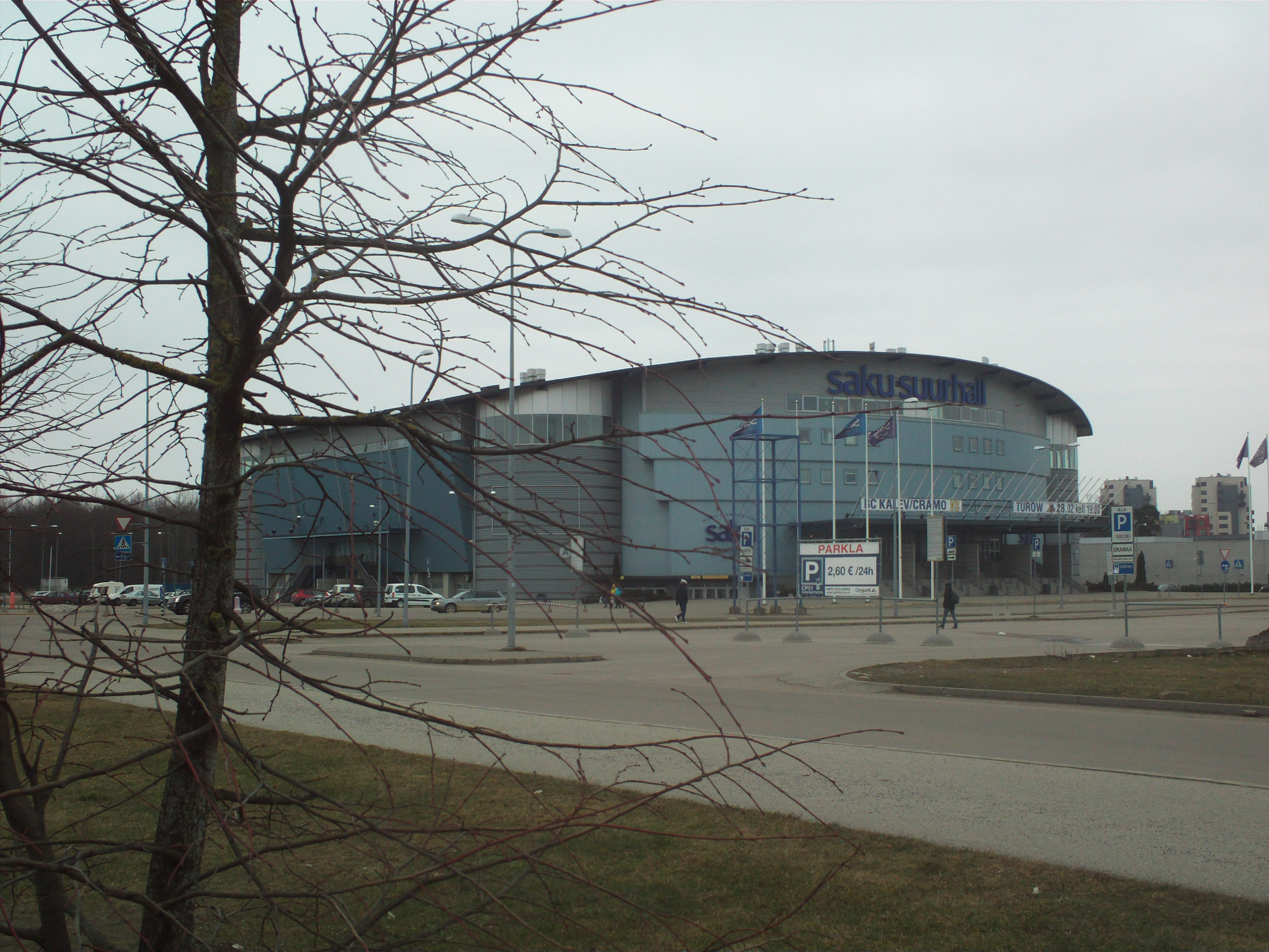 Saku suurhall, the largest arena in Estonia.